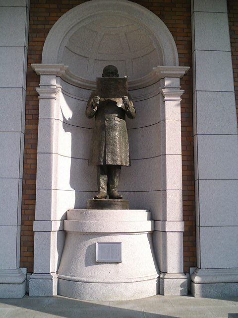 Bronze statue of Katsura Tarō (1848–1913), general in the Imperial Japanese Army and prime-minister of Japan. The statue is situated in Hachiōji, Tokyo, Japan.